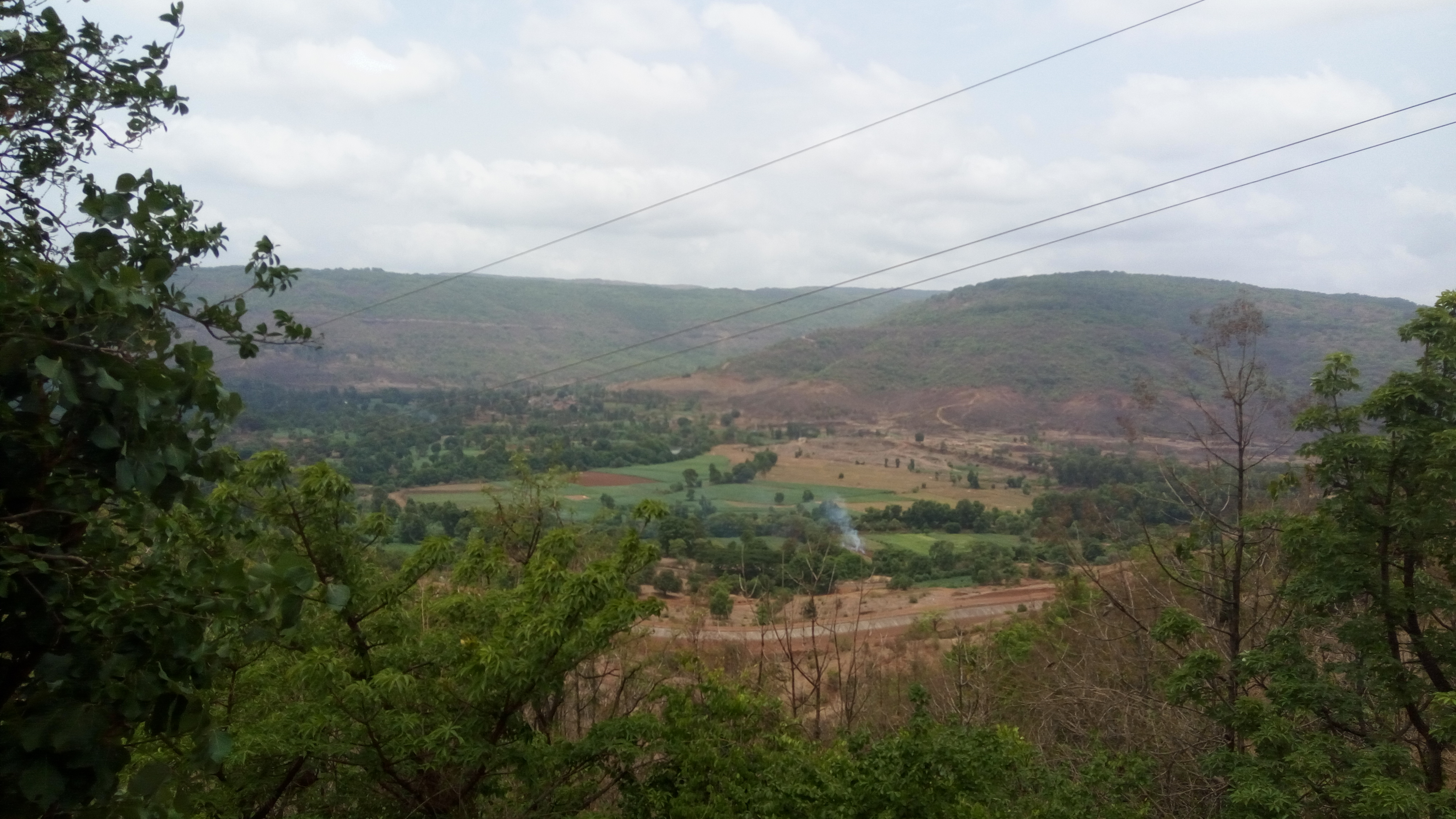 chandoli national park